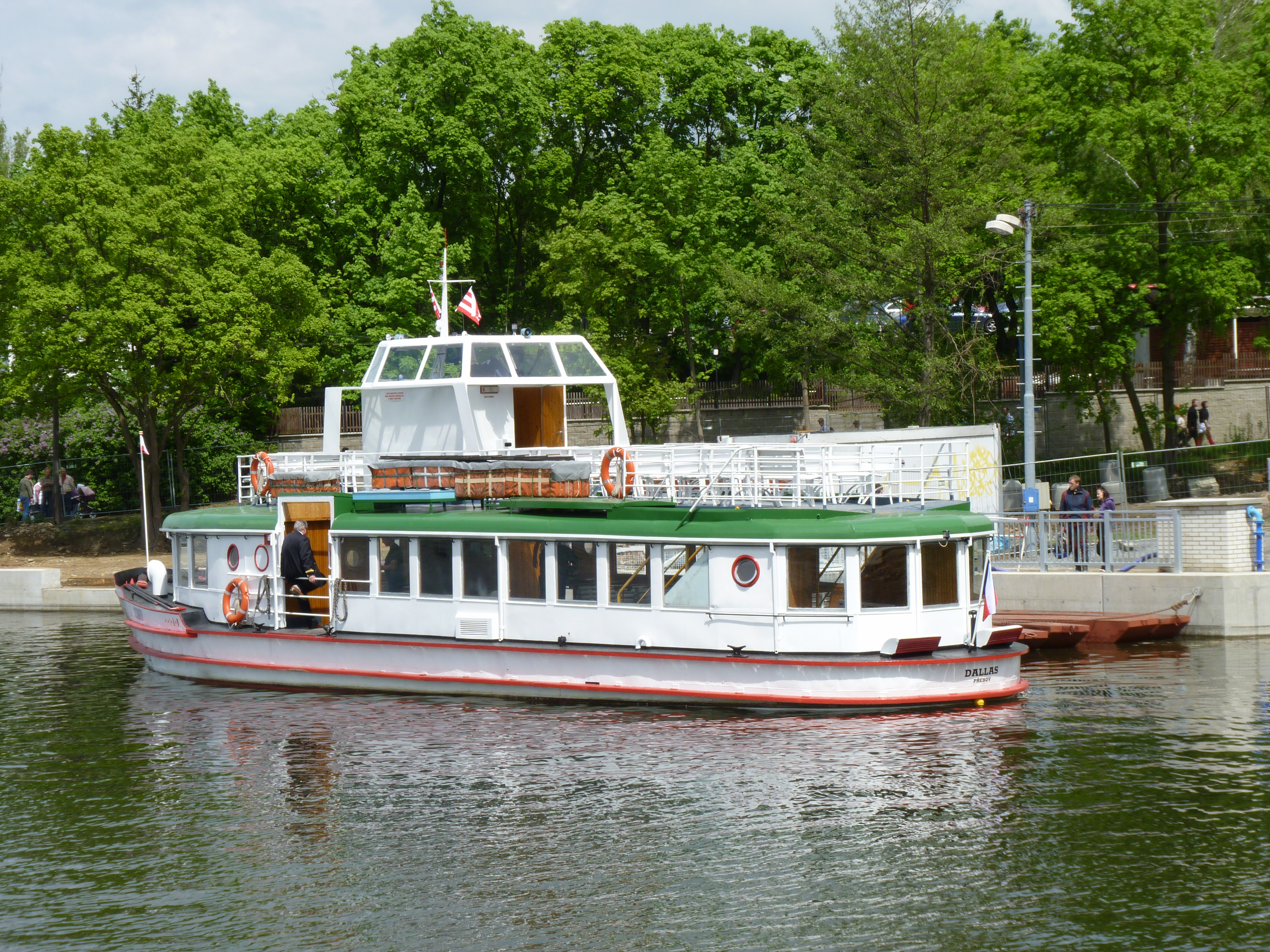 Opening of the sailing season at Brno Reservoir in 2010. Dallas ship.